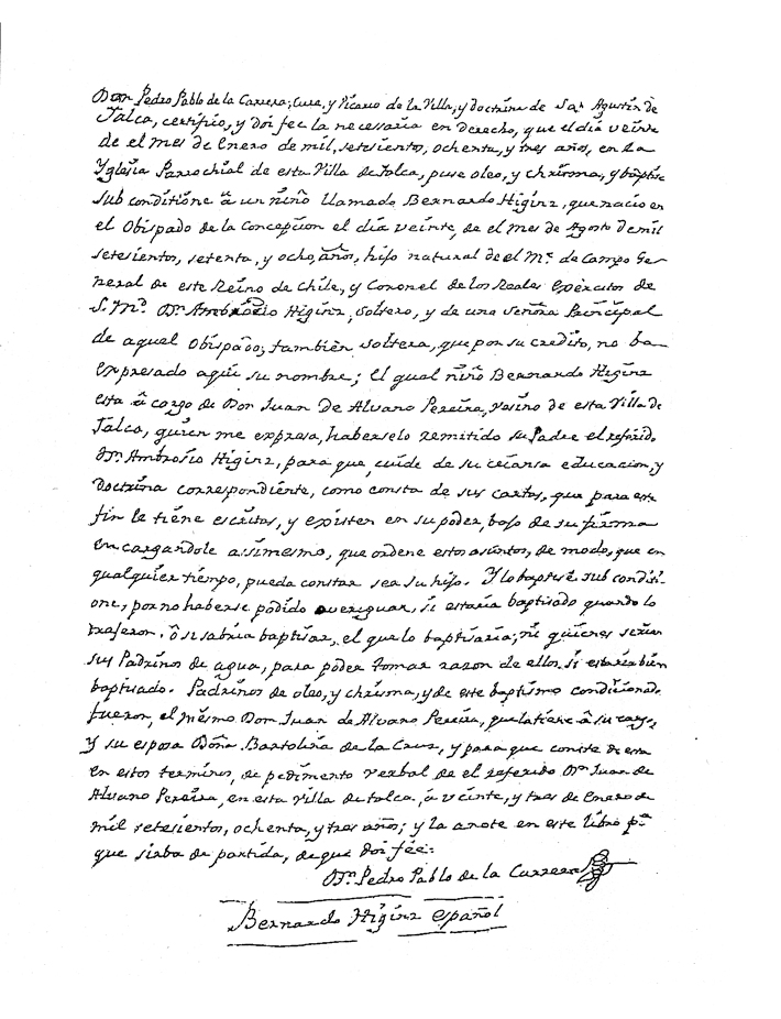 Baptism certificate of Bernardo O'Higgins, registered in Talca, 1788.